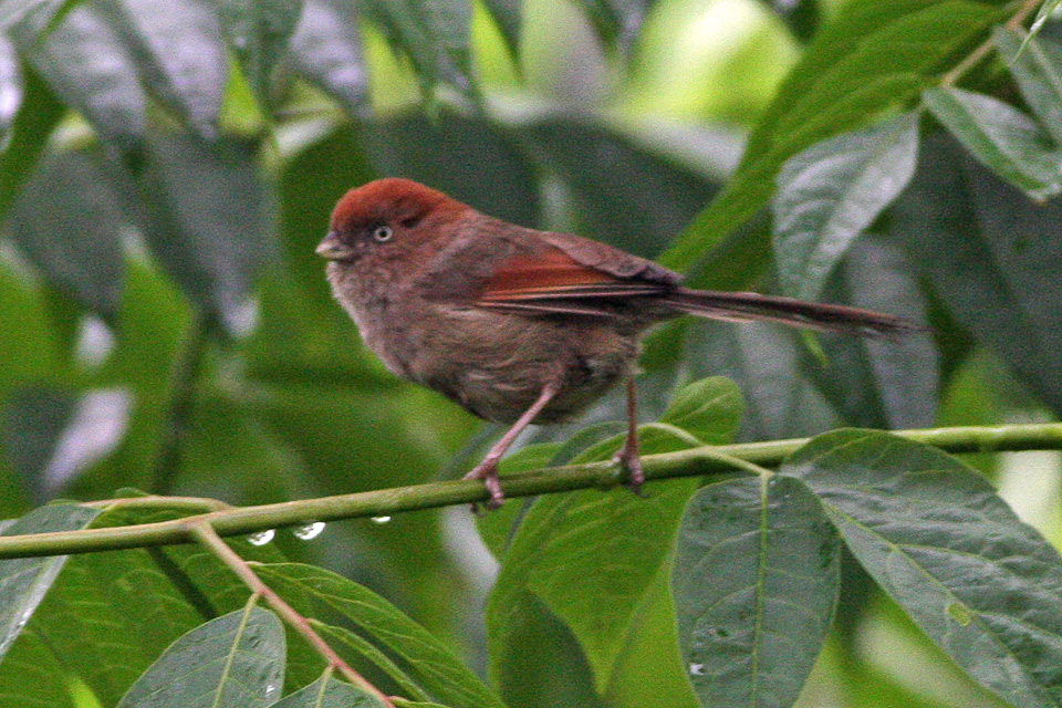 Vinous-throated Parrotbill (Sinosuthora webbiana) at Du Fu's Cottage Garden, Chengdu